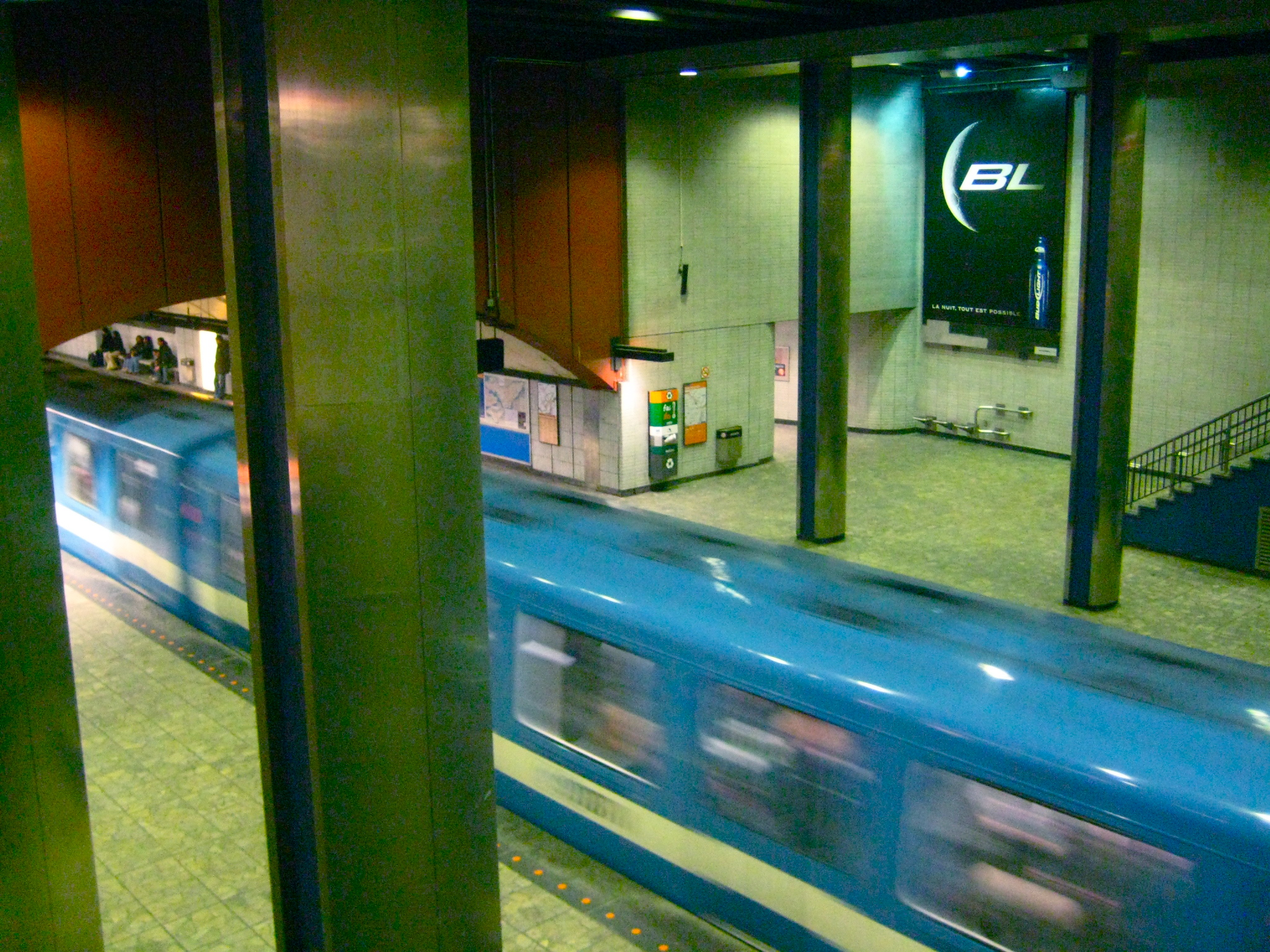 Jean-Talon Metro station platform (Orange Line)